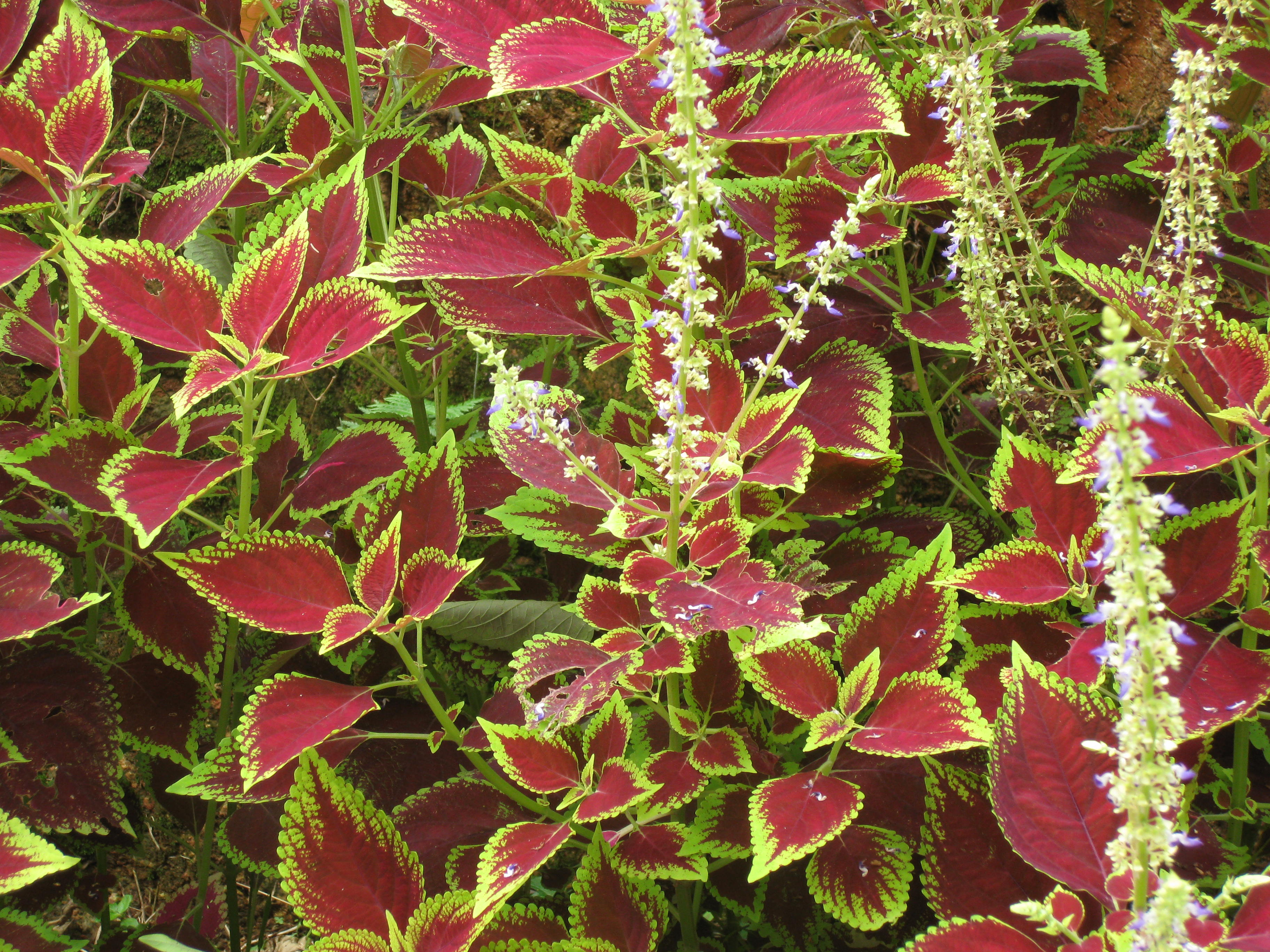 graden plant Solenostemon scutellarioides